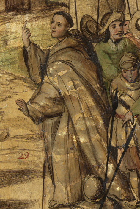 Detail of the fourteenth table about the Conquest of Mexico painted by the new Spanish painters Juan González and Miguel González. This detail shows a representation of the Spanish friar Bartolomé de Olmedo.